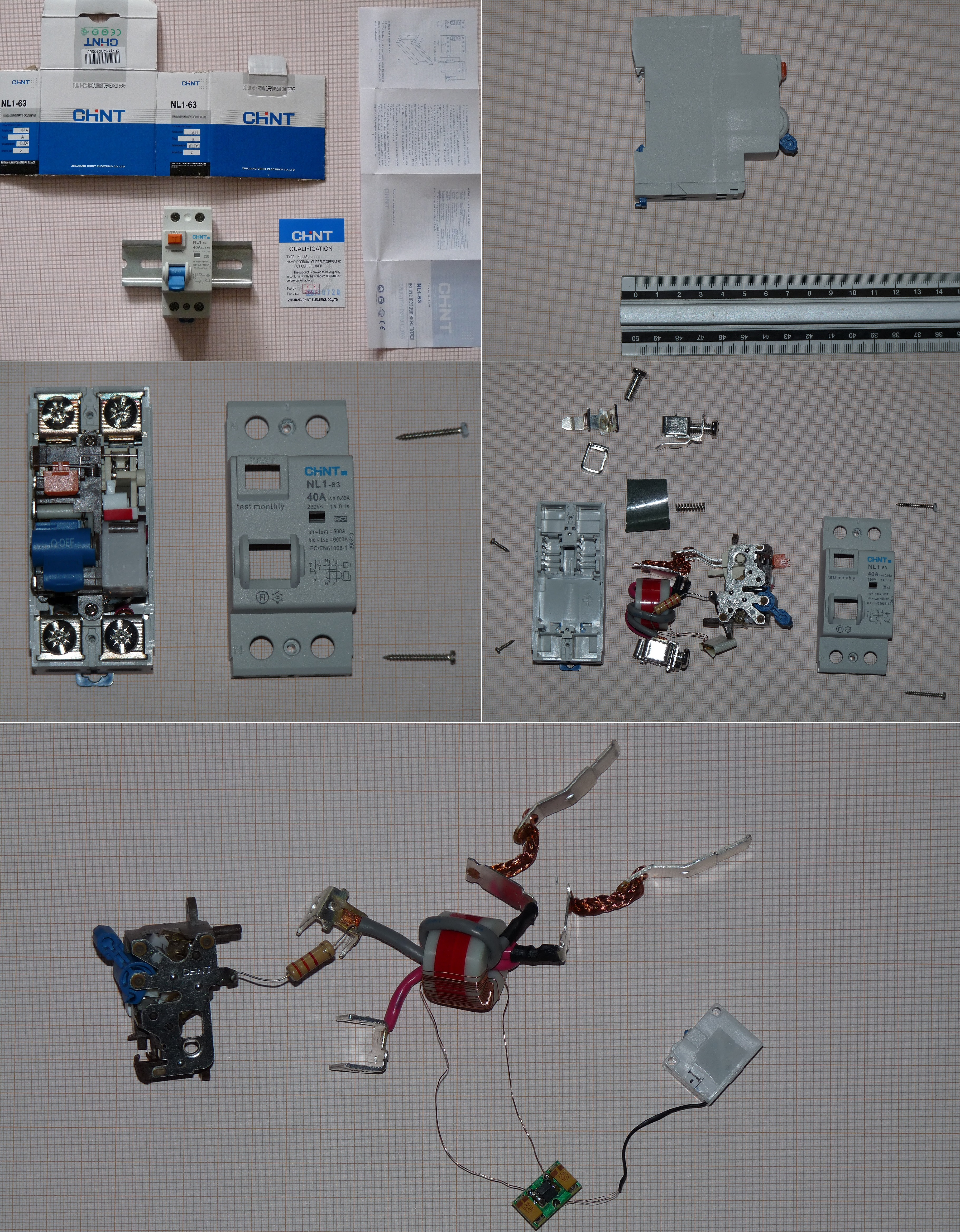 residual current device, 2-pole, 30mA, type "A"